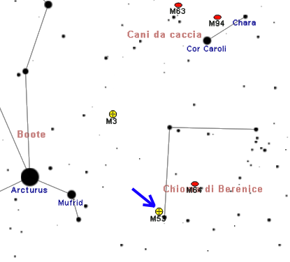 Map of M53